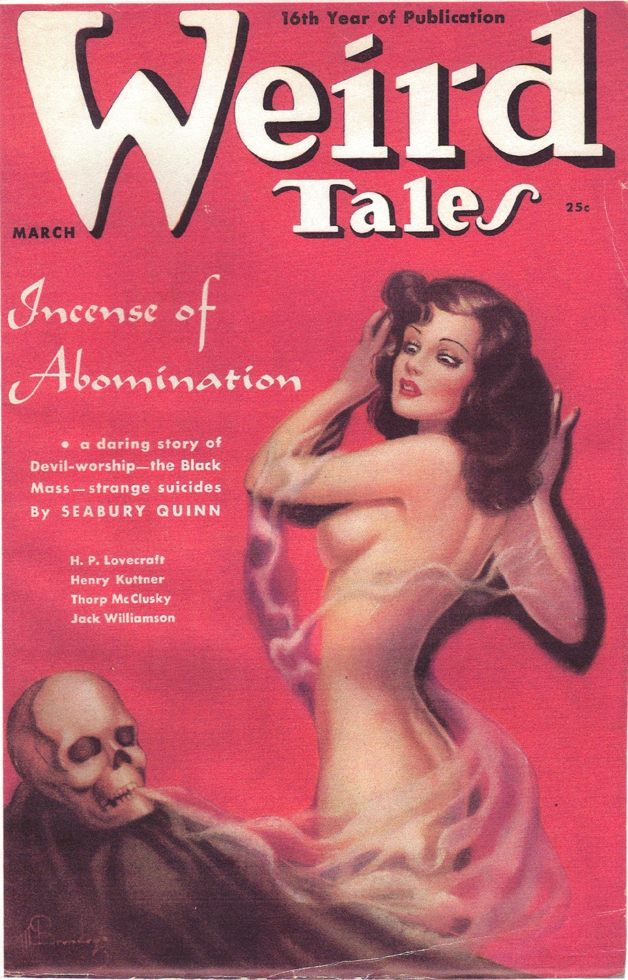 Cover of the pulp magazine Weird Tales (March 1938, vol. 31, no. 3) featuring Incense of Abomination by Seabury Quinn. Cover art by Margaret Brundage.